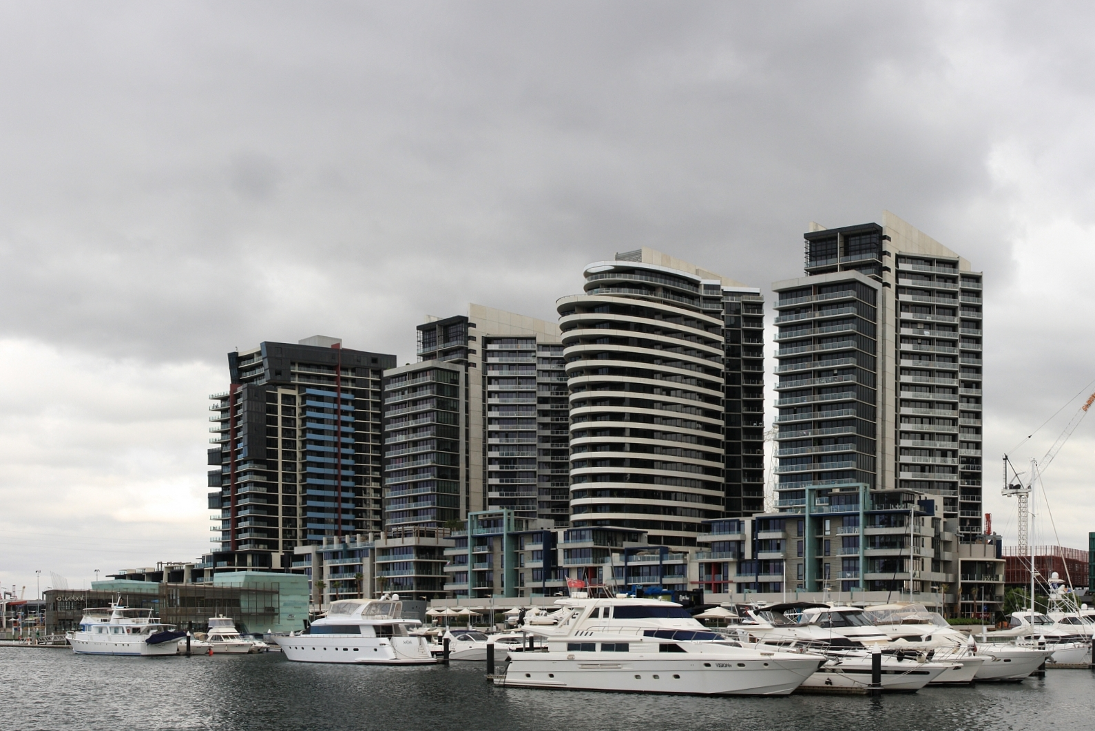 Melbourne Docklands area, taken from the terraces of Etihad Stadium